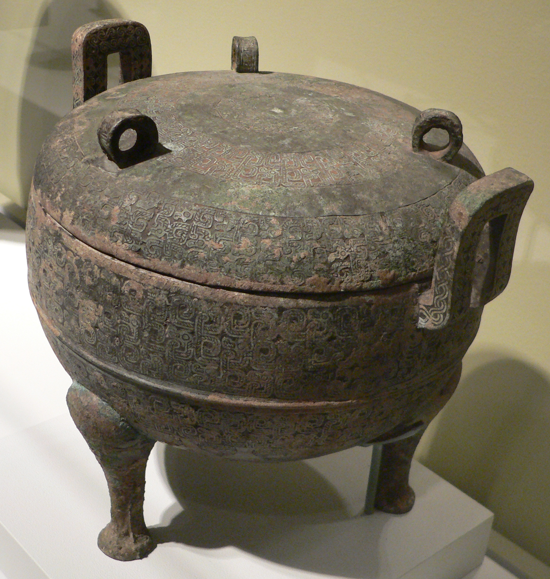 China, late Eastern Zhou Dynasty (771-256 BC) Ritual food vessel (ding, 鼎) 5th-4th century BC Bronze and lacquer gift or Mr and Mrs Stewart M. Marshall, 1964